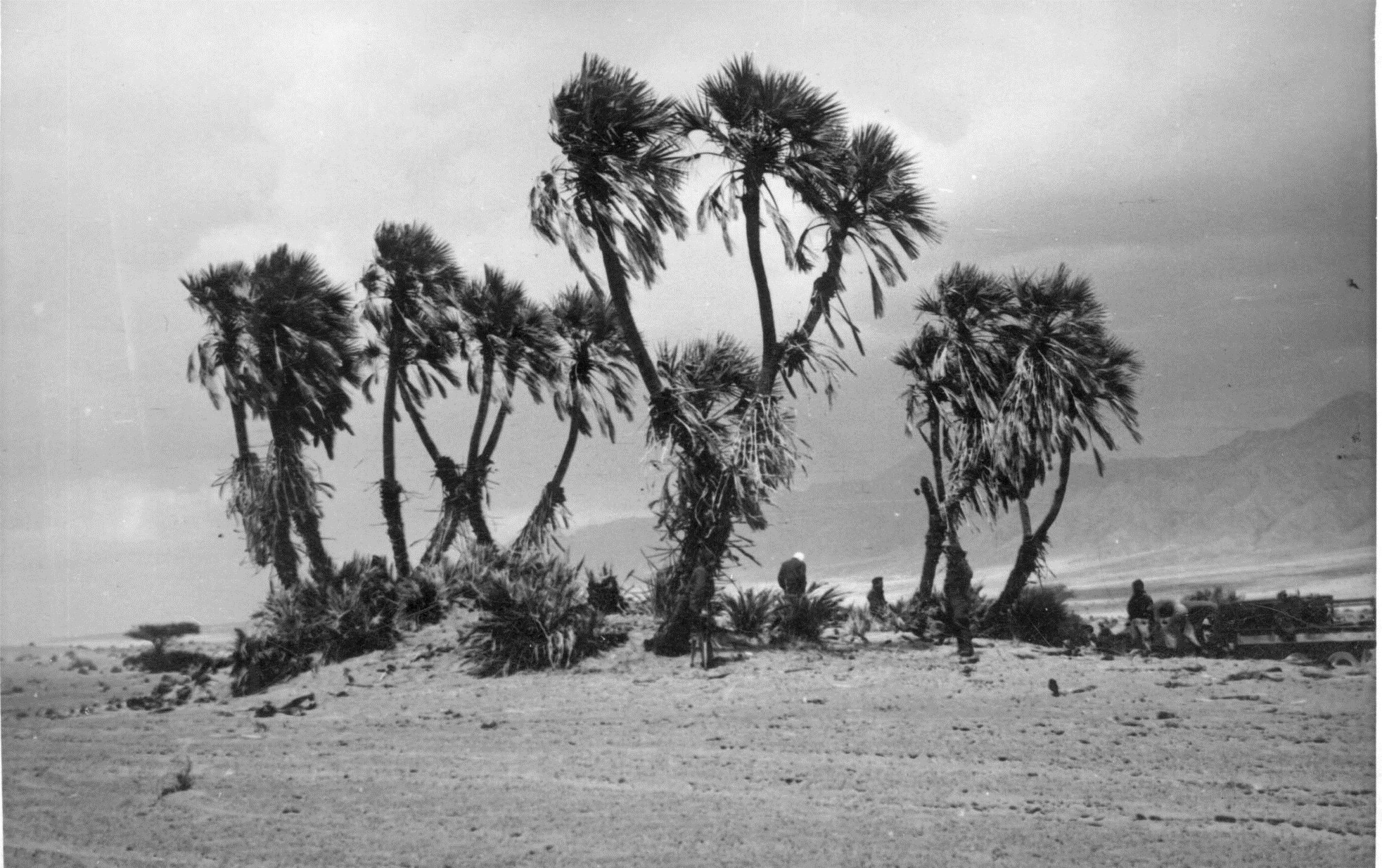 The Palmach, Israel Defense Forces